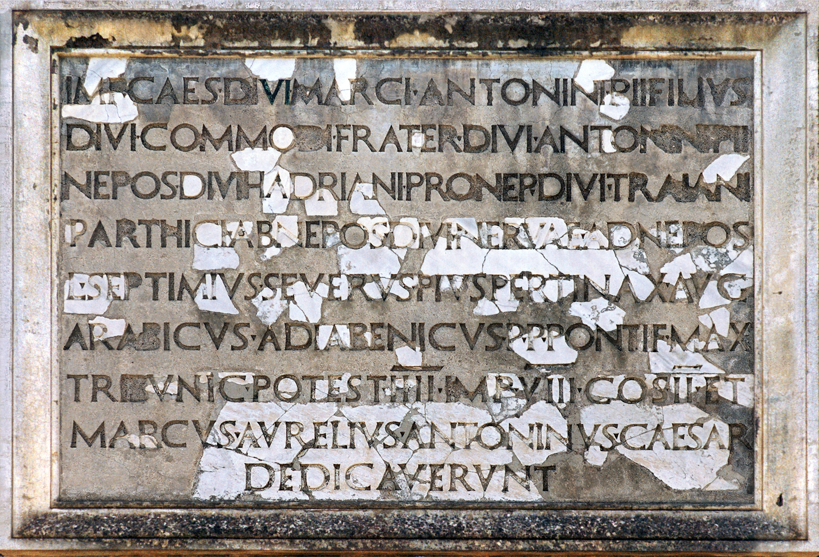 Dedicatory inscription by Septimius Severus and Caracalla, 196 AD. Marble slab with (lost) bronze letters. Theatre of Ostia Antica, Latium, Italy, CIL XIV, 00114.